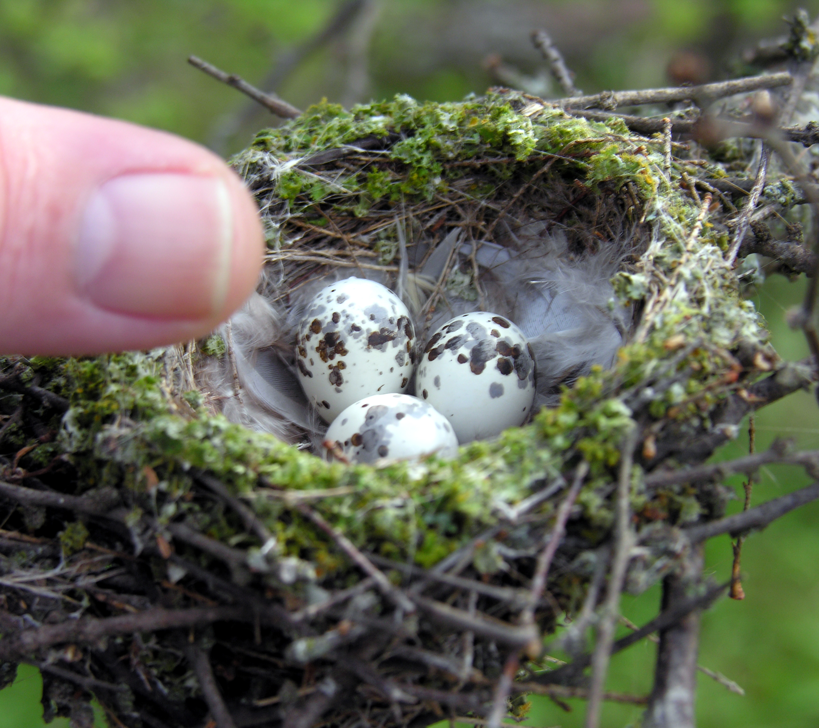 Vermillion Flycatcher nest with eggs, Lake Amistad, Del Rio, Texas. Thumb just for size comparision.